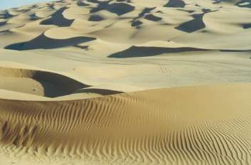 A Desert in LibyaBân-lâm-gú: Tī Libya ê sua-bo̍k. 佇利比亞的沙漠。